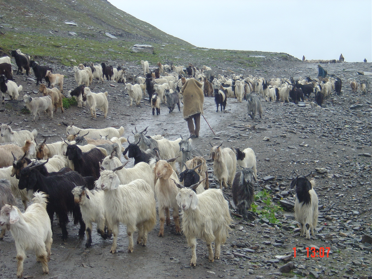 A unique view of Rohtang Pass, Manali in the month of Dec 2006